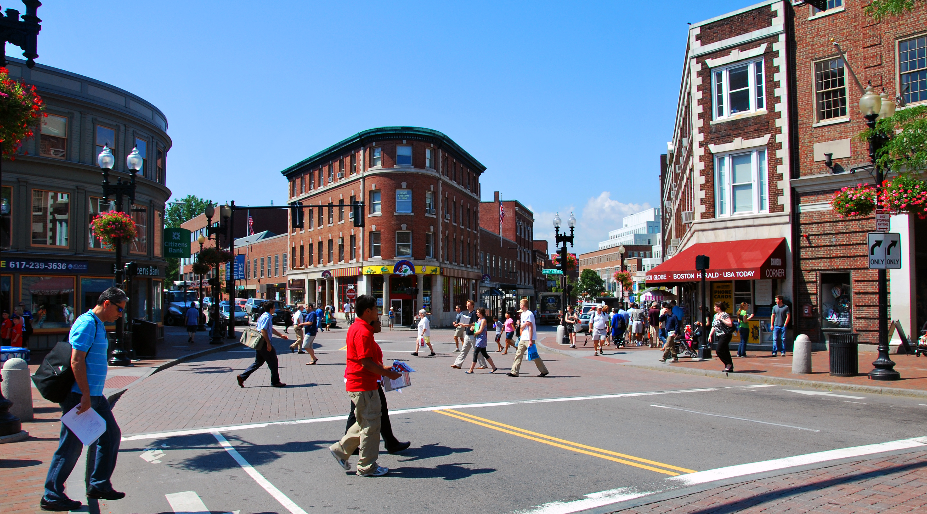 Harvard Square Cambridge Massachusetts 2009